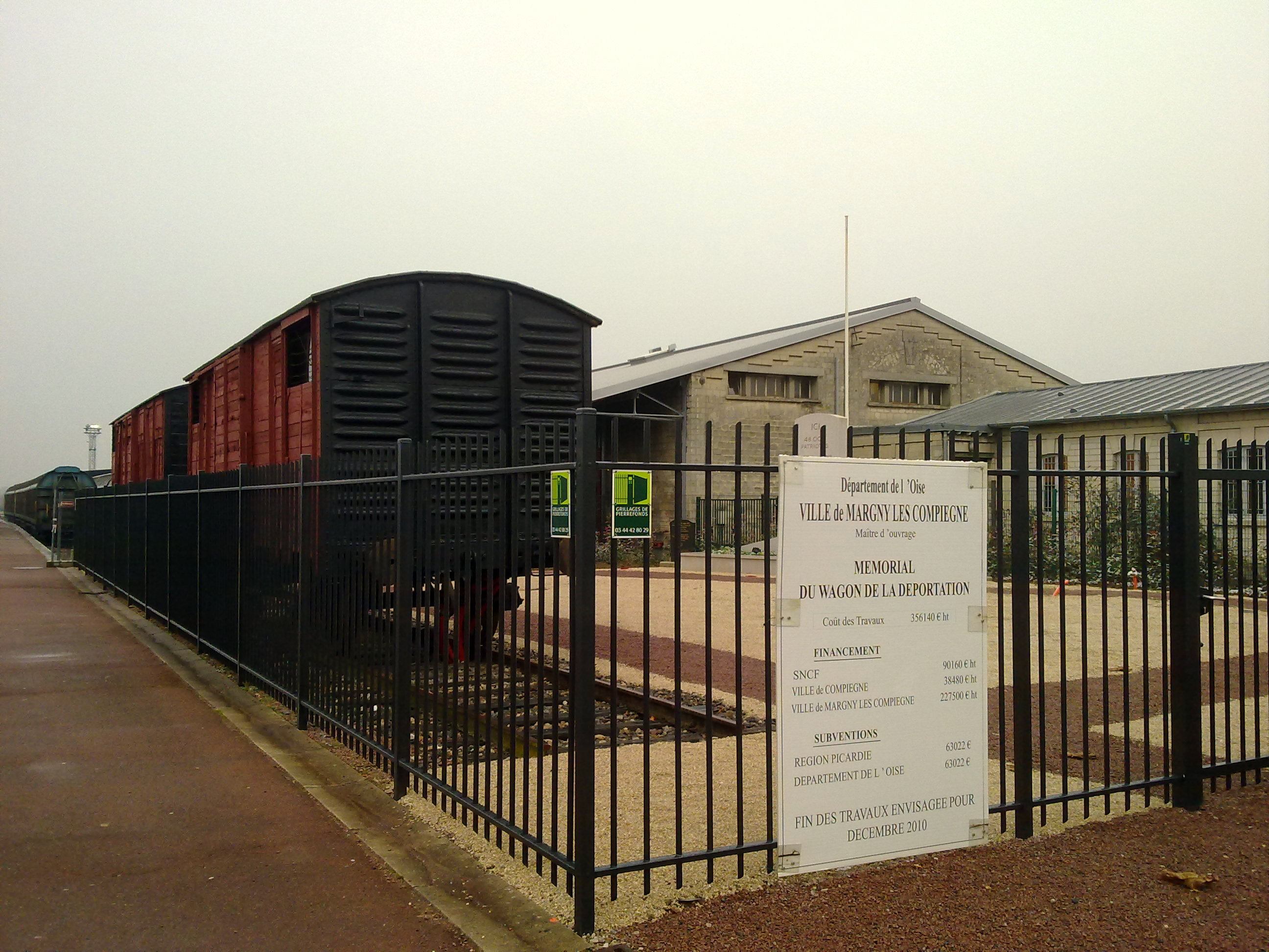 Memorial of the deportation Wagon at Compiegne Rail Station, near platform n° 2 of the rail station, using two wagons too old to be used for deportation